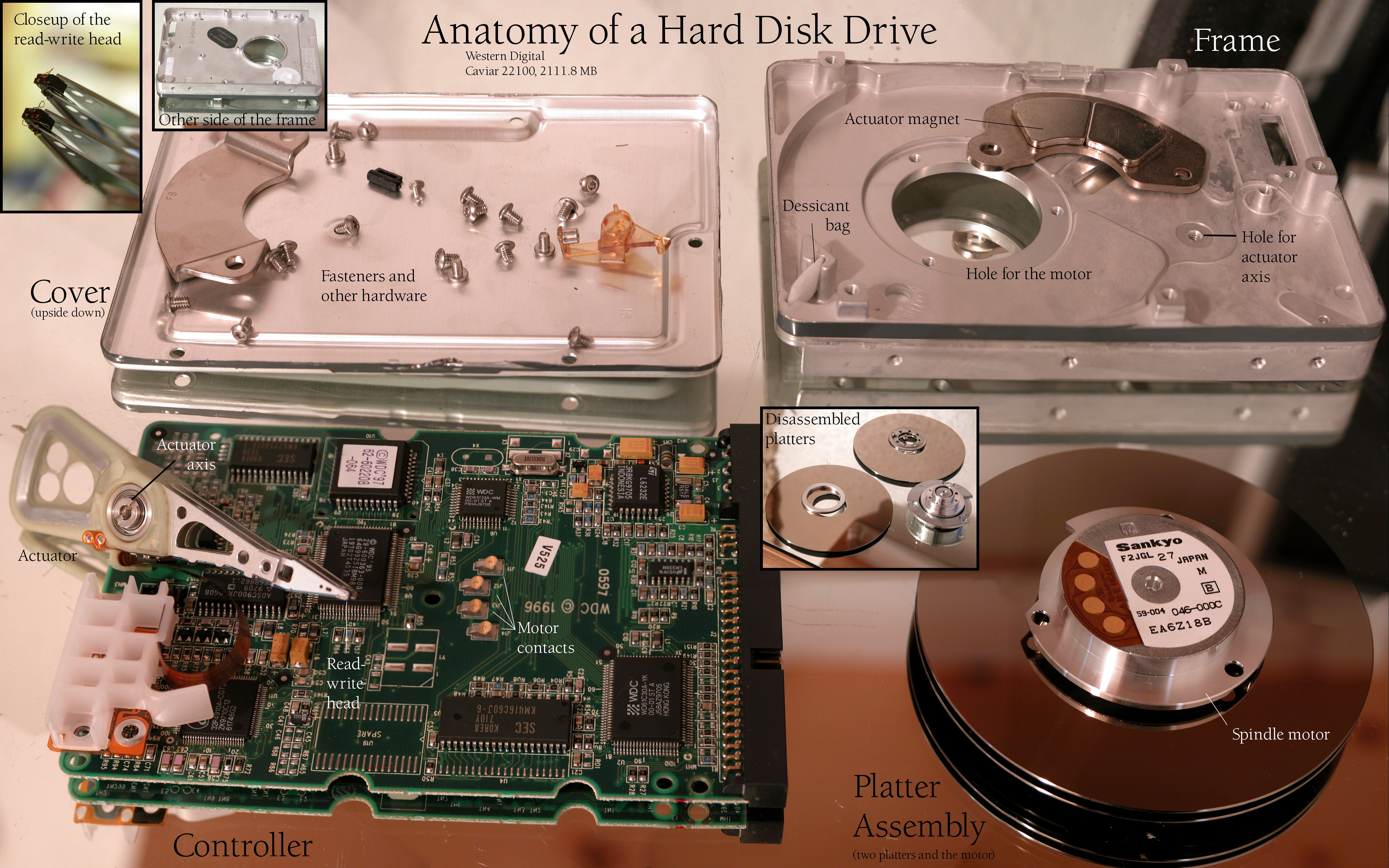 Self made. Font is (free) Berolina (by Fonteria). My first GIMPed image. It's a panorama consisting of 14 photos, plus the three overlaid photos. Photos taken with Coolpix 5700.